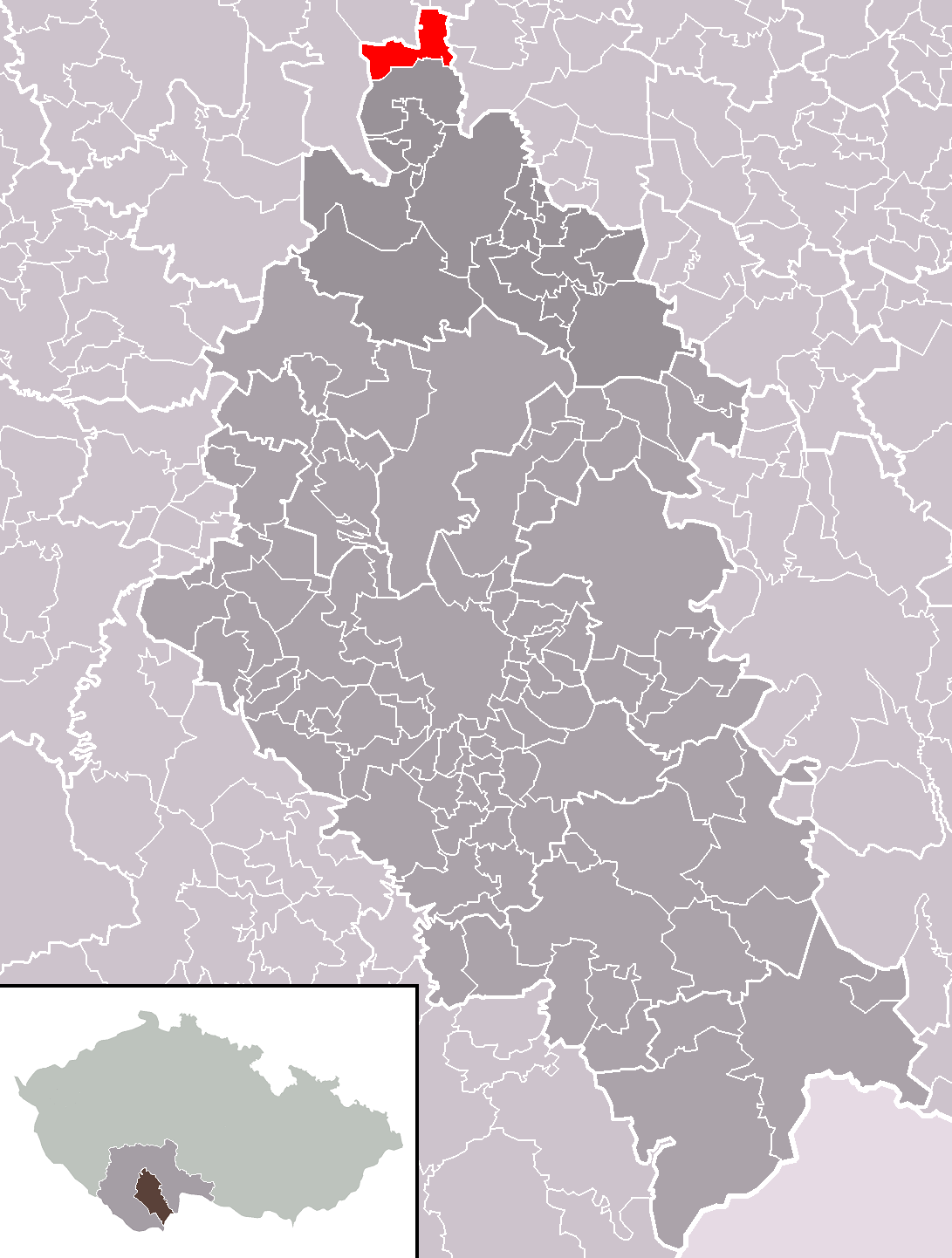 Location of Dražíč municipality within České Budějovice District and administrative area of Týn nad Vltavou as a Municipality with Extended Competence.